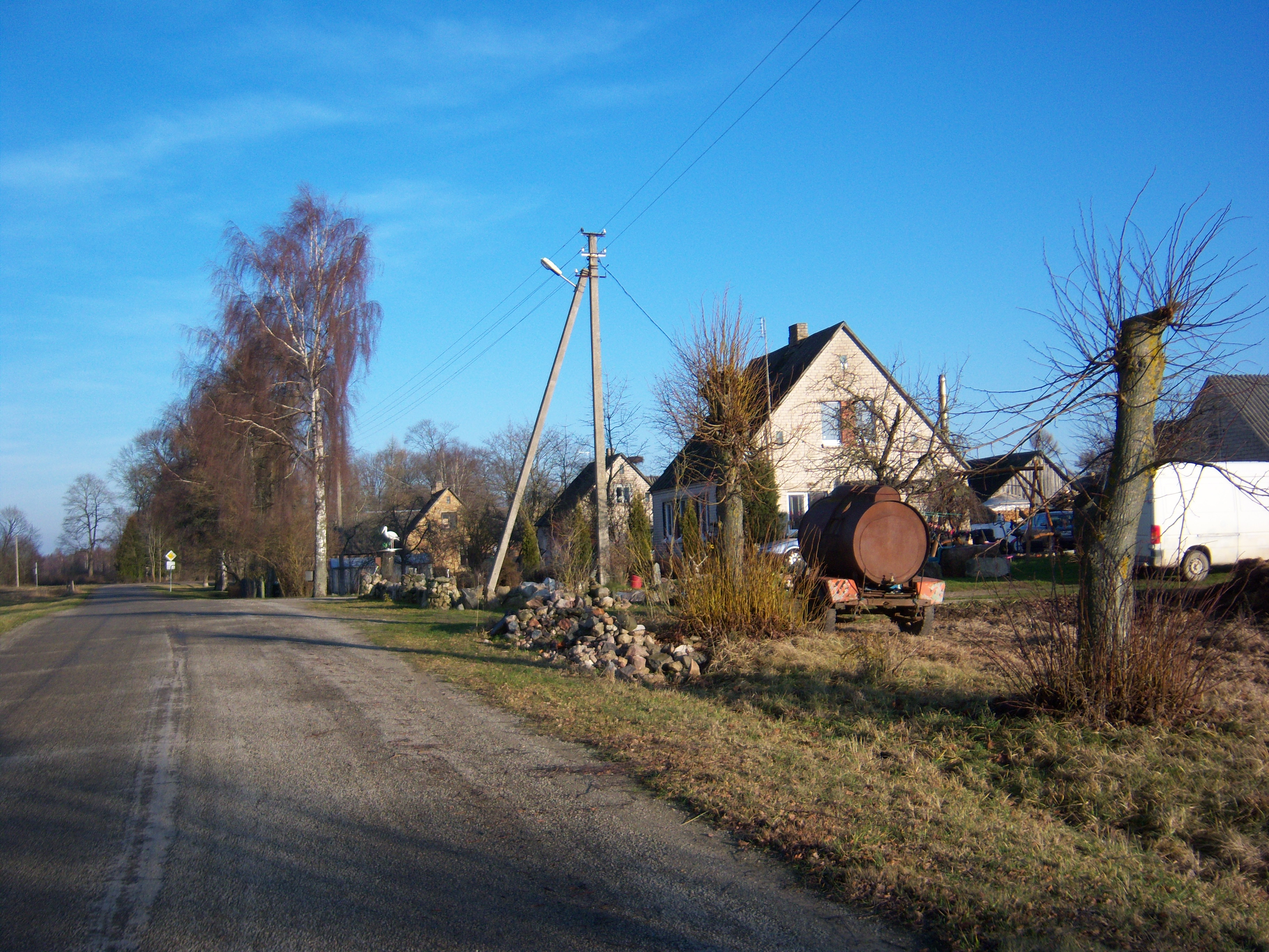 Rinkšeliai, Raseiniai District, Lithuania